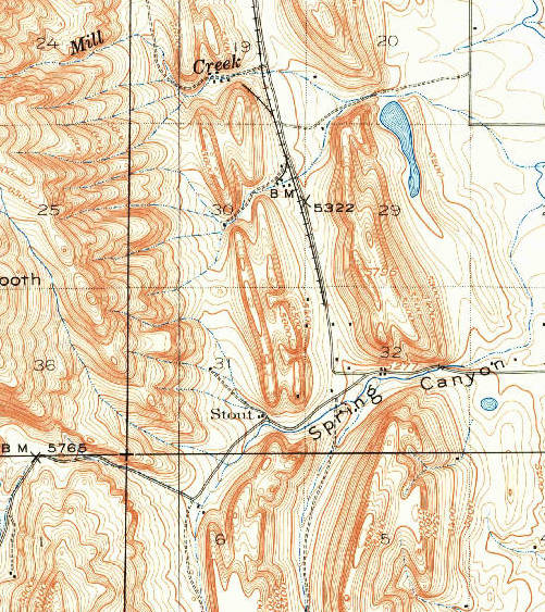 The town was abandoned in 1949 to make way for the inundation of the valley